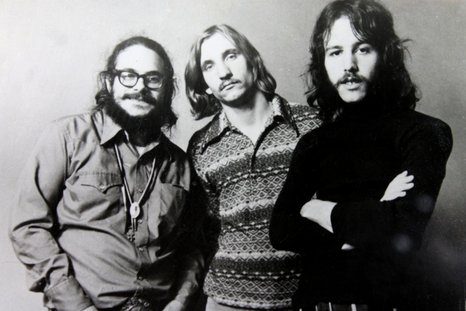 rock band James Gang